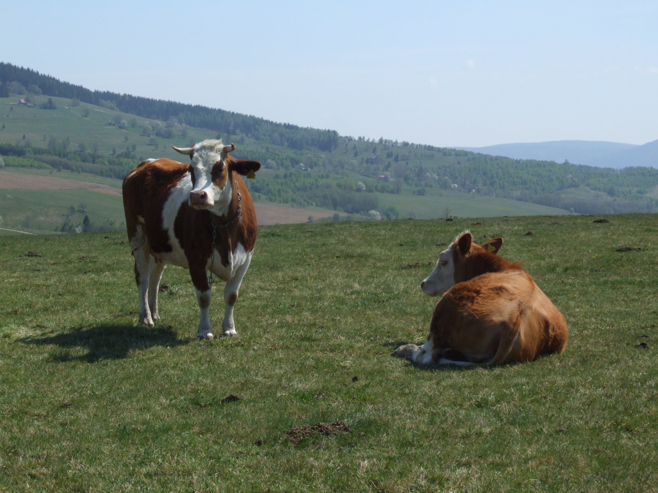 Cows in polish mountain (Masyw Śnieżnika, Glatzer Schneegebirge) near town Międzylesie (Mittelwalde)